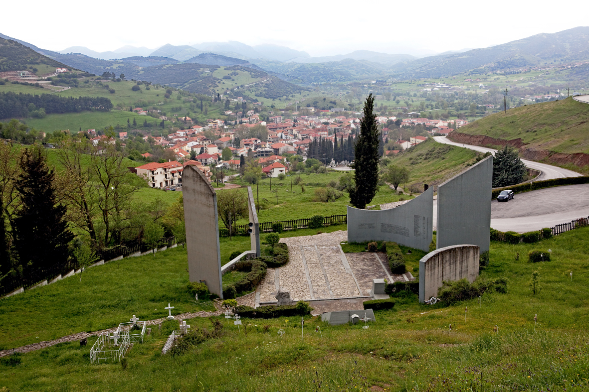 Kalavryta, view from the memorial